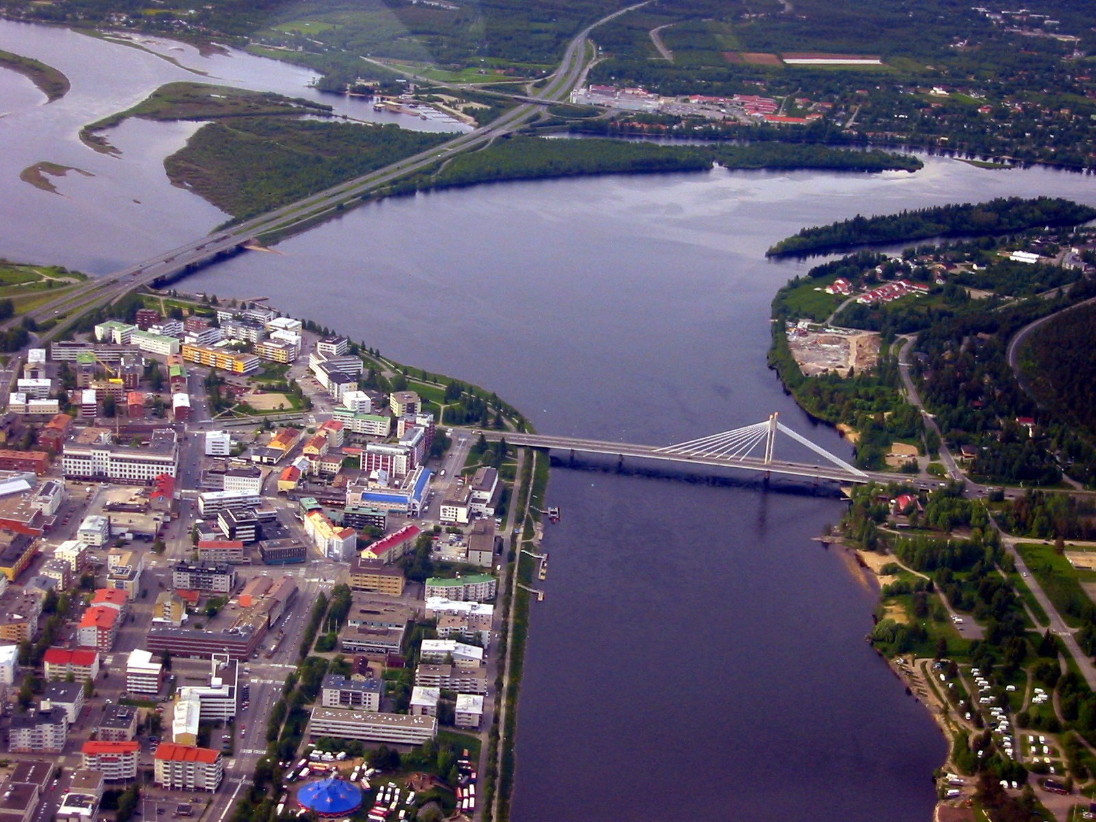 Aerial photo of Rovaniemi, Finland